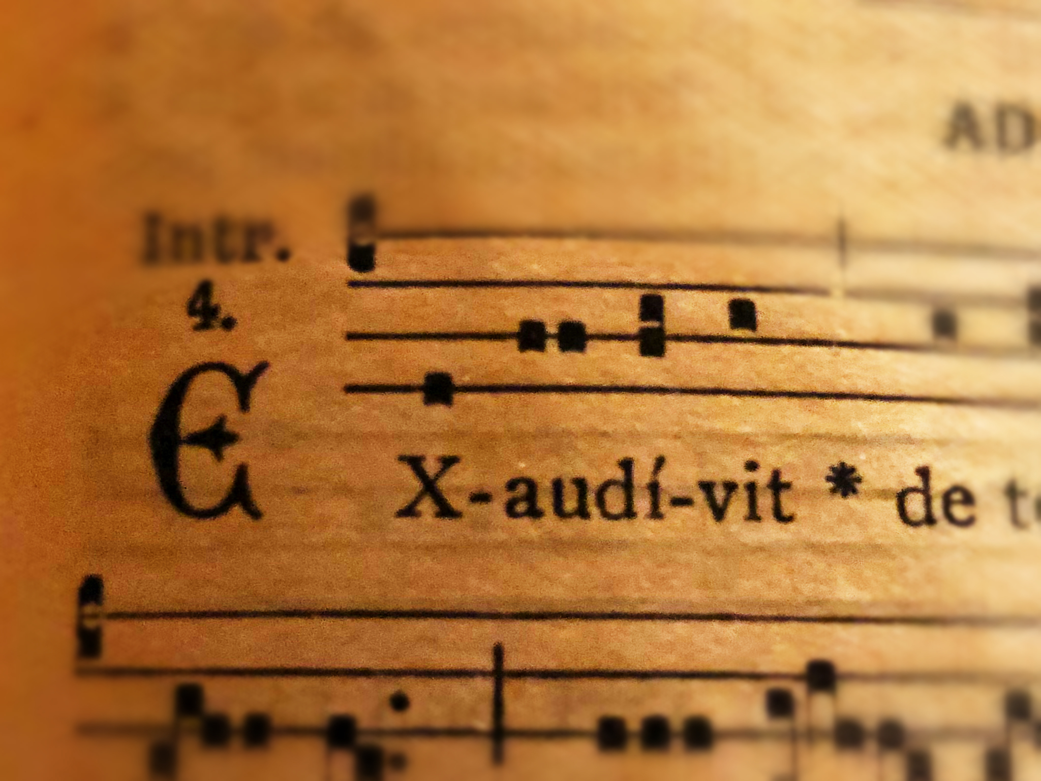 Incipit of the Introitus Exaudivit